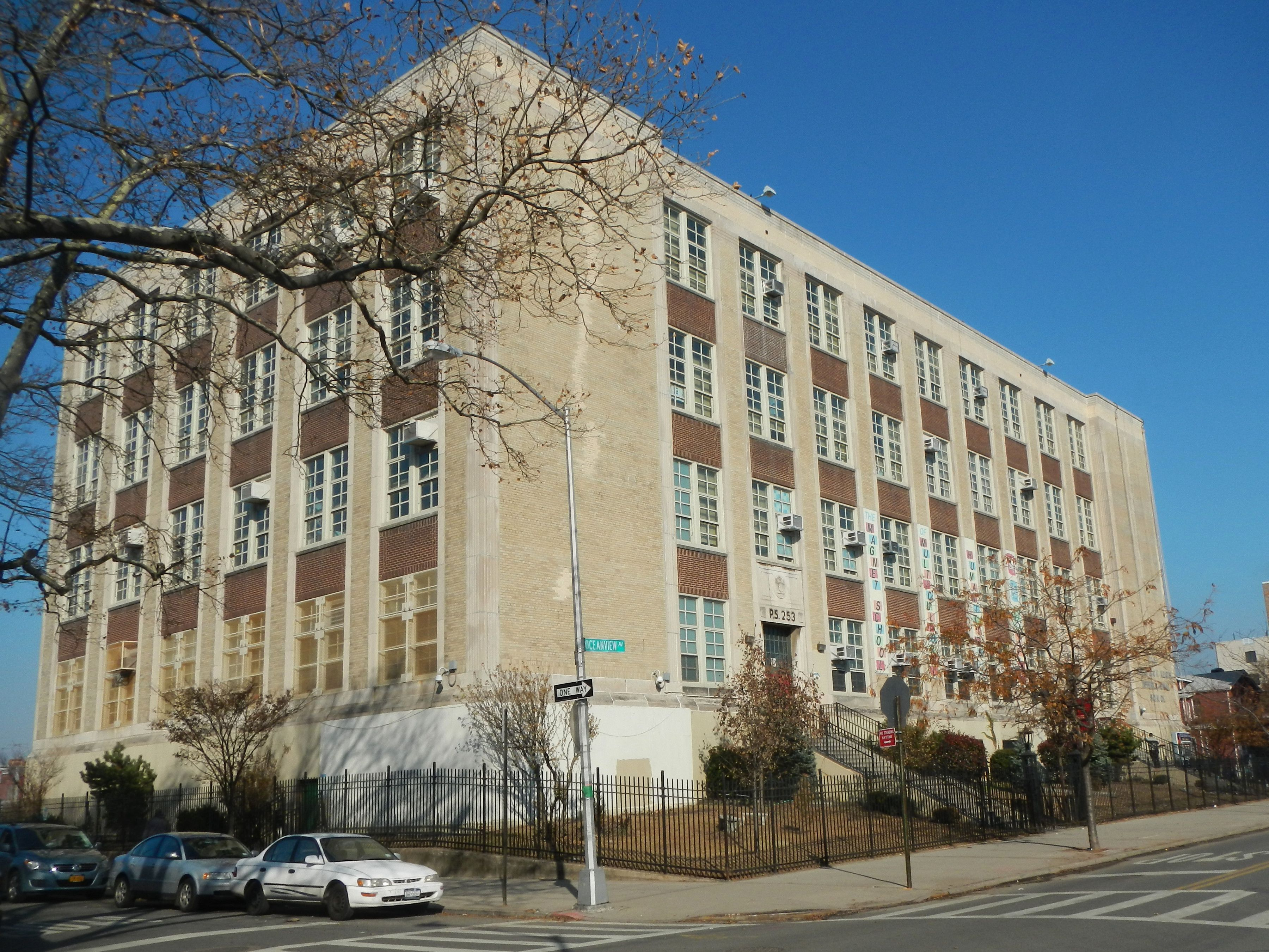 Looking northeast across Oceanview Avenue at PS 253 on a sunny midday.